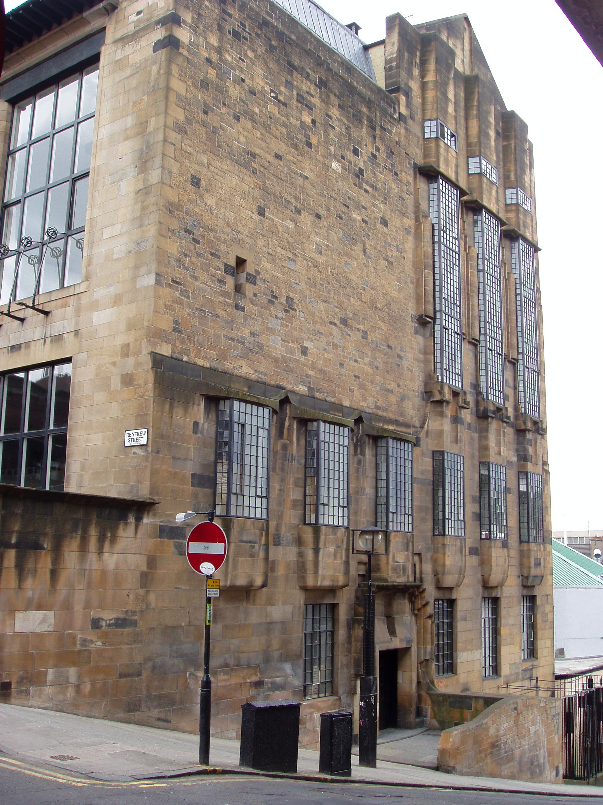 The Glasgow School of Art. Glasgow, Scotland